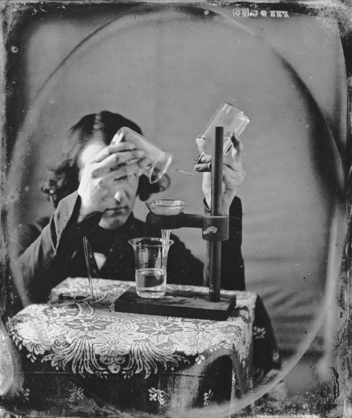 Portrait of Martin Hans Boyè during experiments